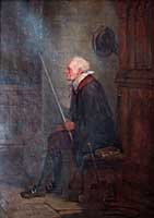 Oil on canvas, 1882. Private collection. Portrait of a dog whipper.